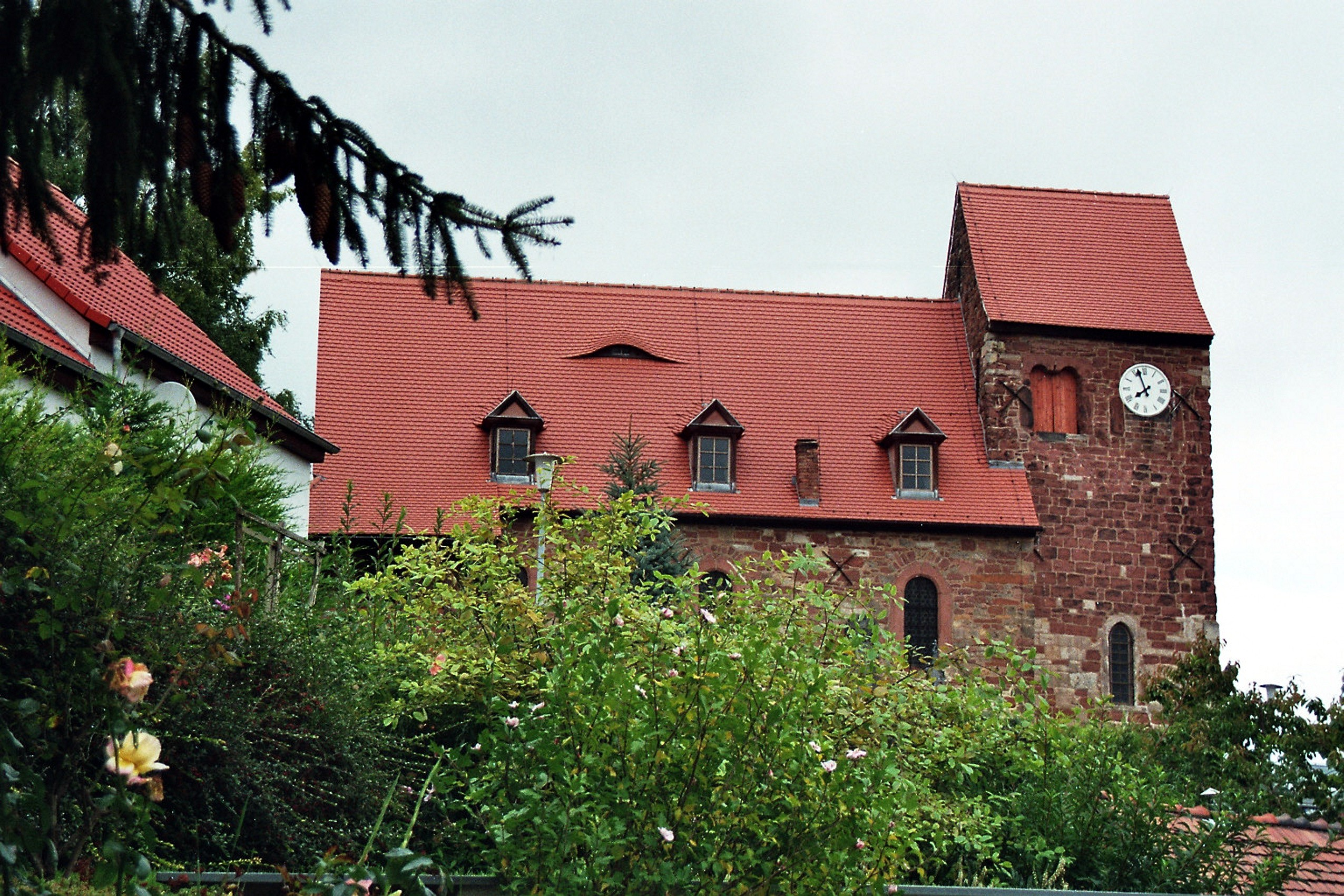 Hornburg (Seegebiet Mansfelder Land), the village church St. Ulrich This is a photograph of an architectural monument. 05787